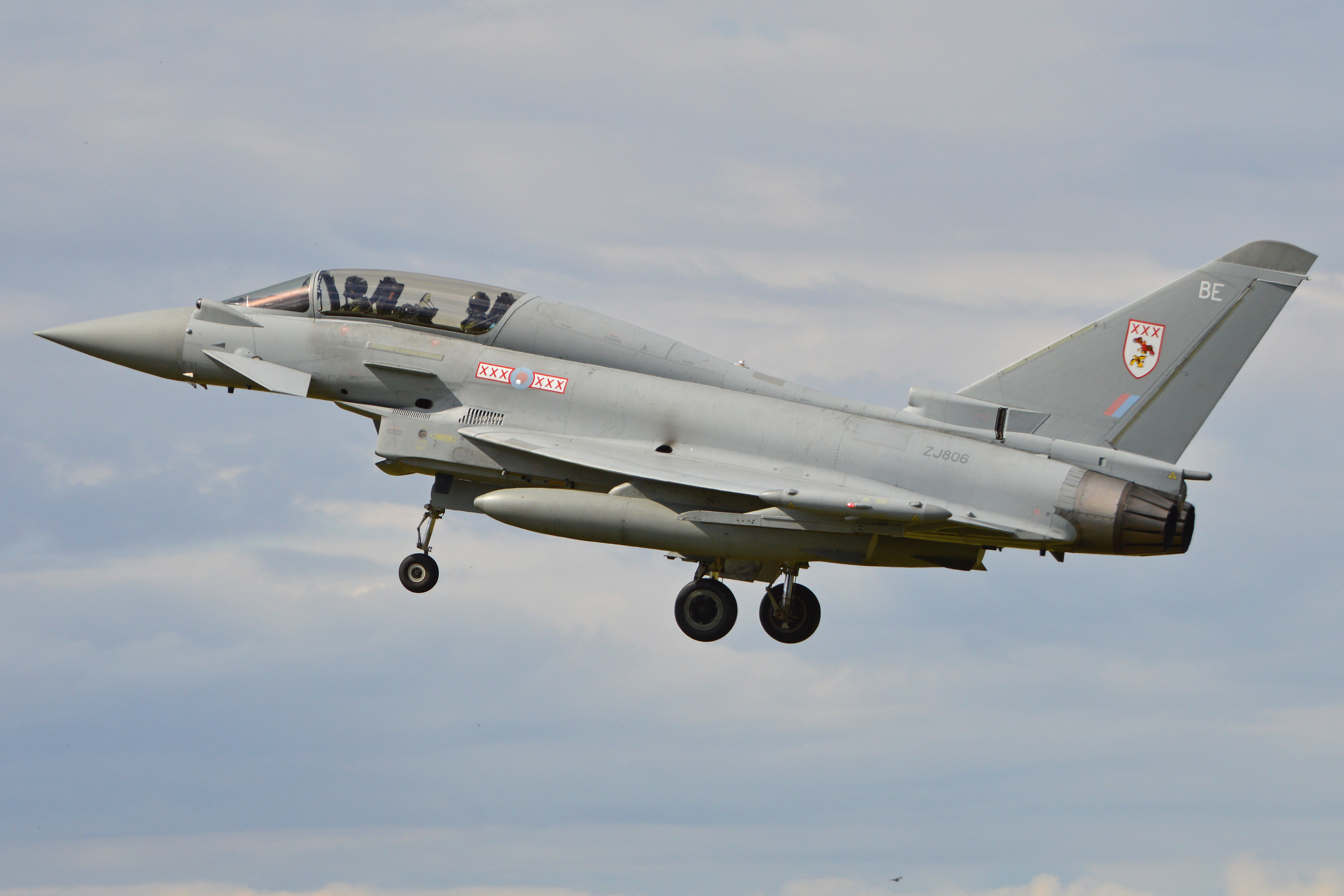 c/n 023, l/n BT007. Operated by 29(R)sqn RAF and seen landing at its home base of RAF Coningsby, Lincolnshire, UK. 29-7-2015